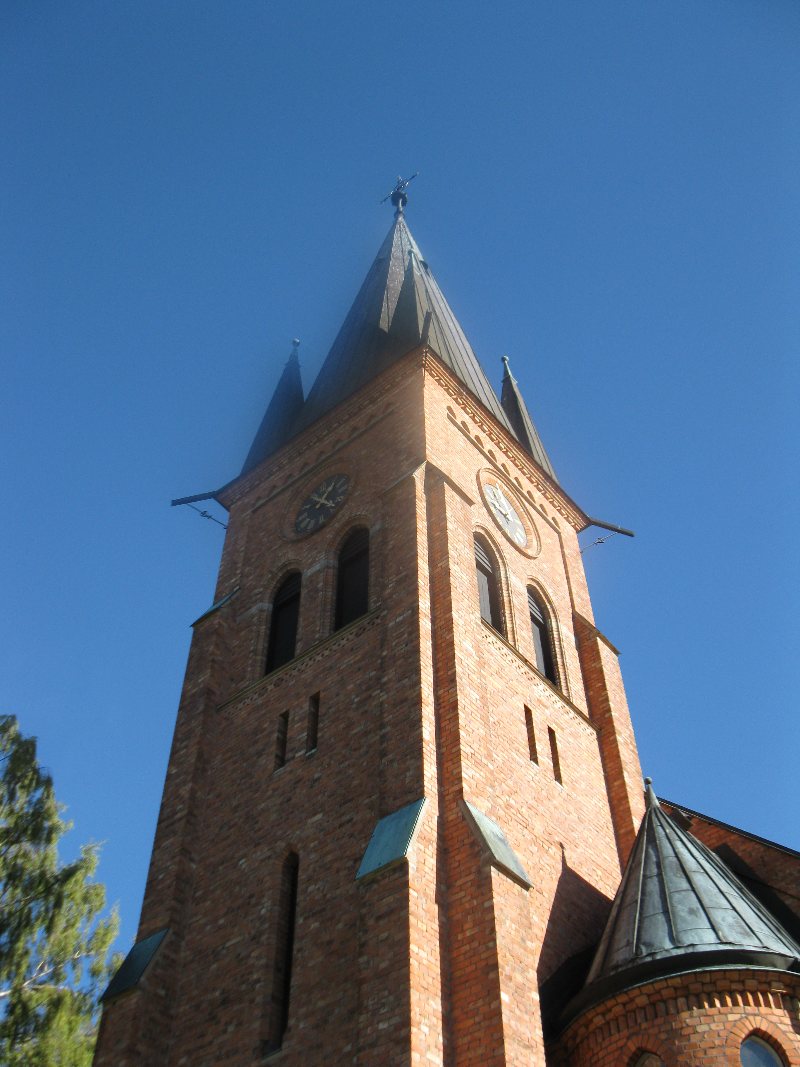 New church of Alnö in Sweden